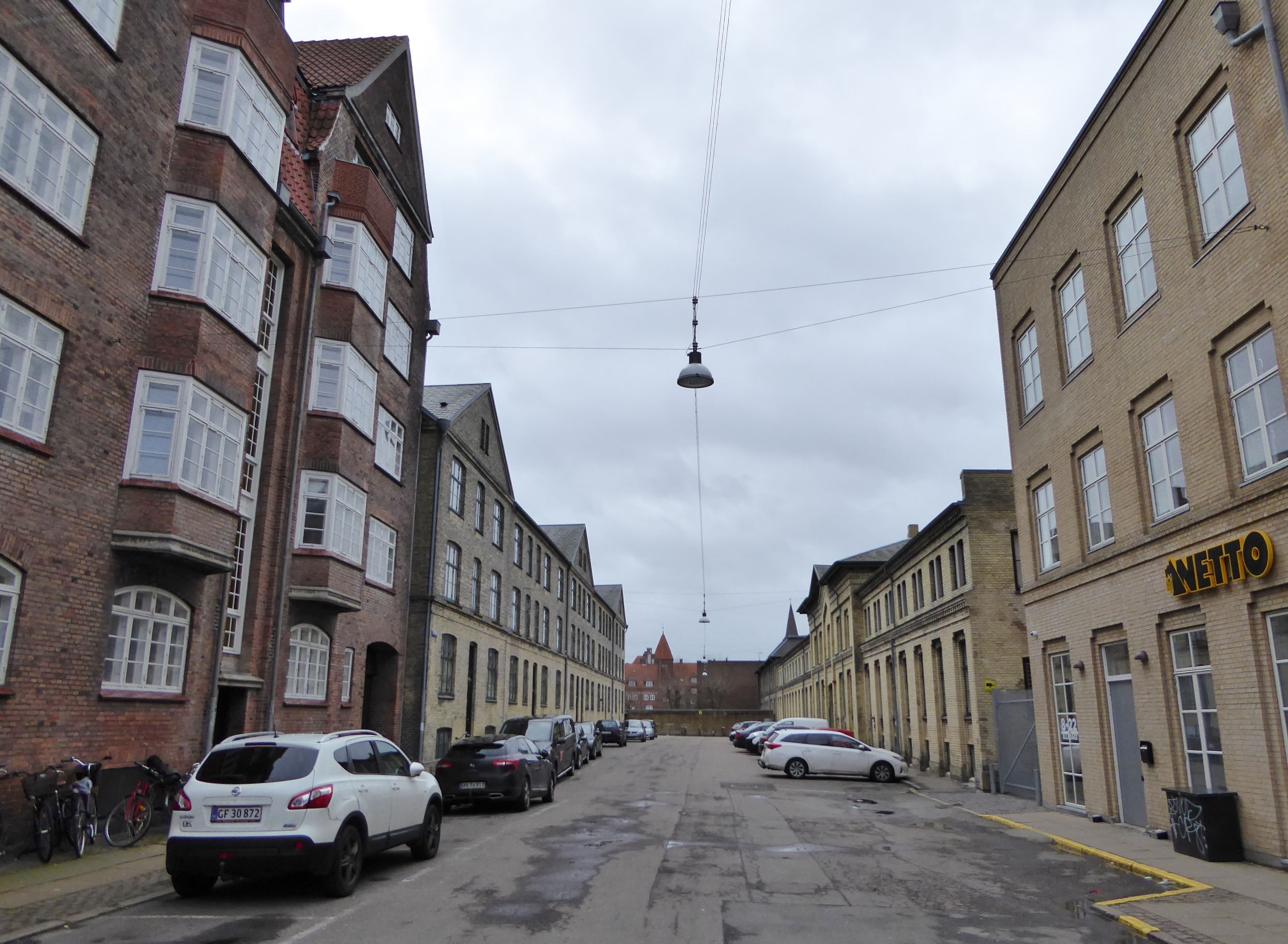 Street with the unofficial name Frikadellely, official a part of Tagensvej in Nørrebro in Copenhagen.